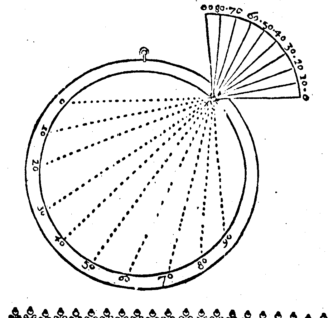 Picture from "Seamans Secrets" describing an astronomical instrument